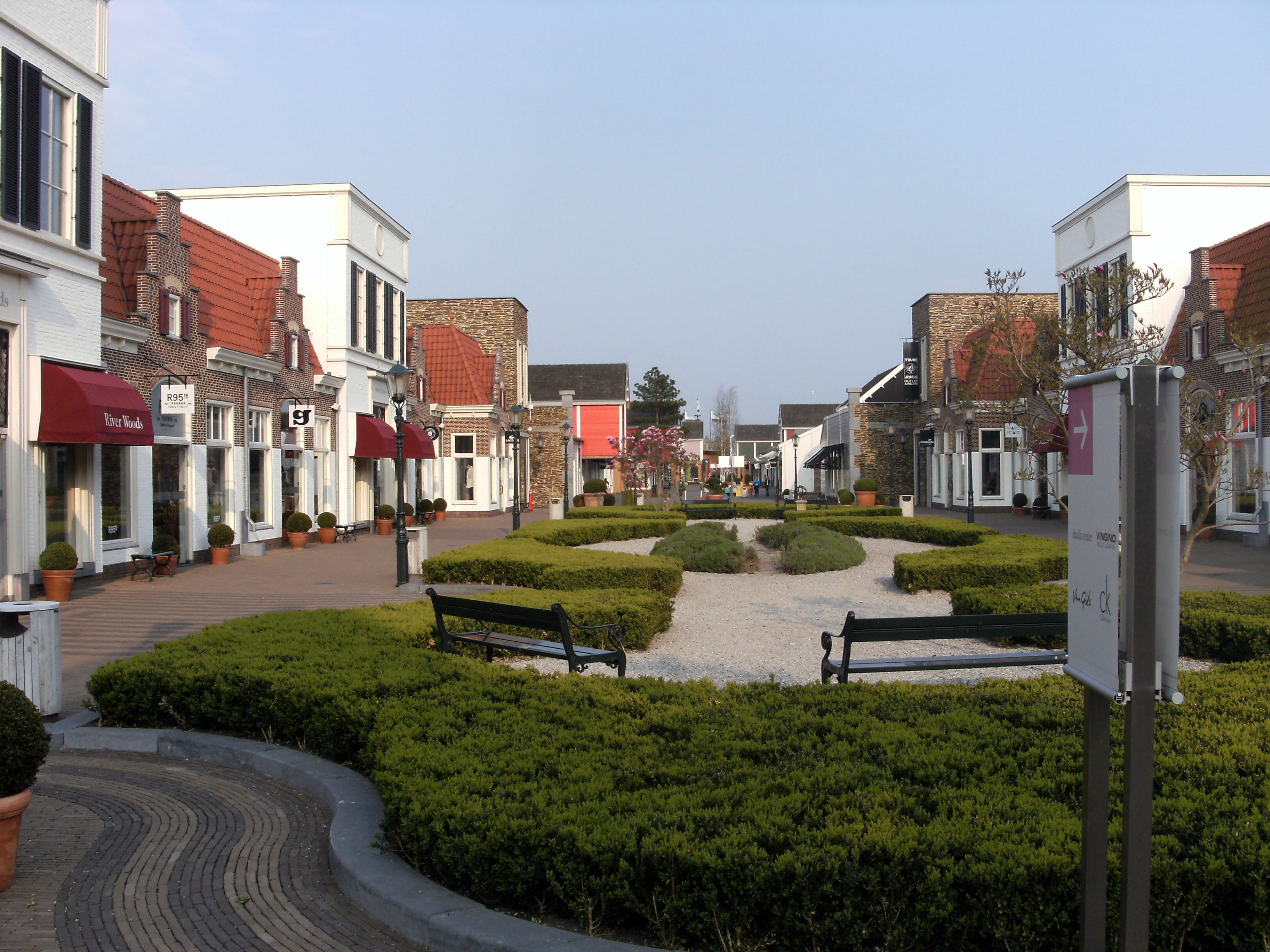 2011-04-17 in Lelystad; Bataviastad. Street.